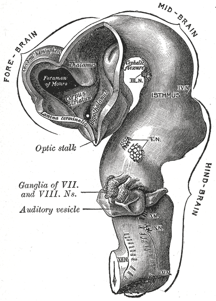 Brain of human embryo of four and a half weeks, showing interior of fore-brain. (From model by His.)